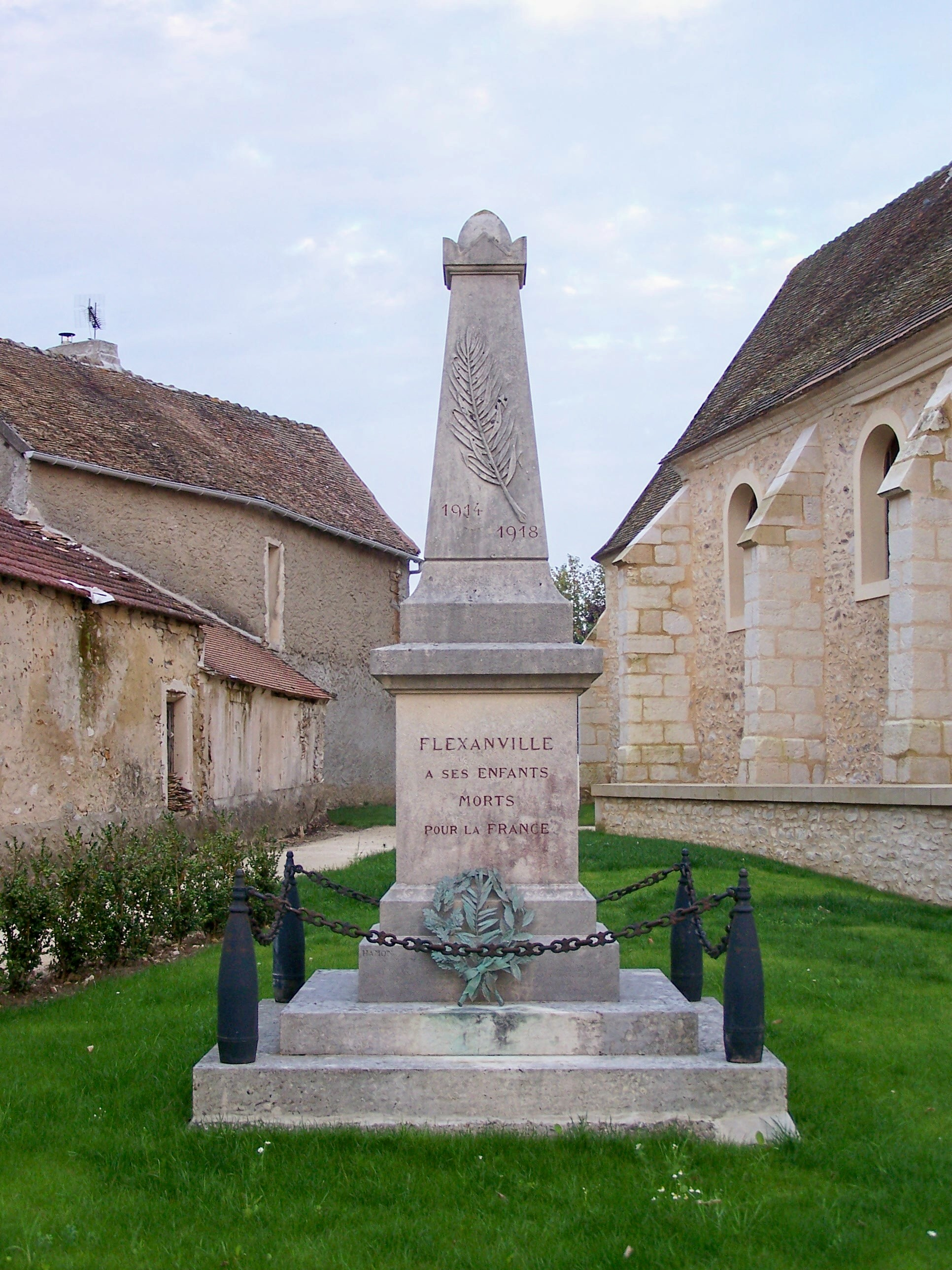 War memorial of Flexanville (Yvelines, France)